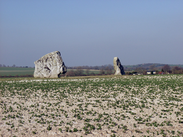 The Longstones, a pair of standing stones in Wiltshire, England.